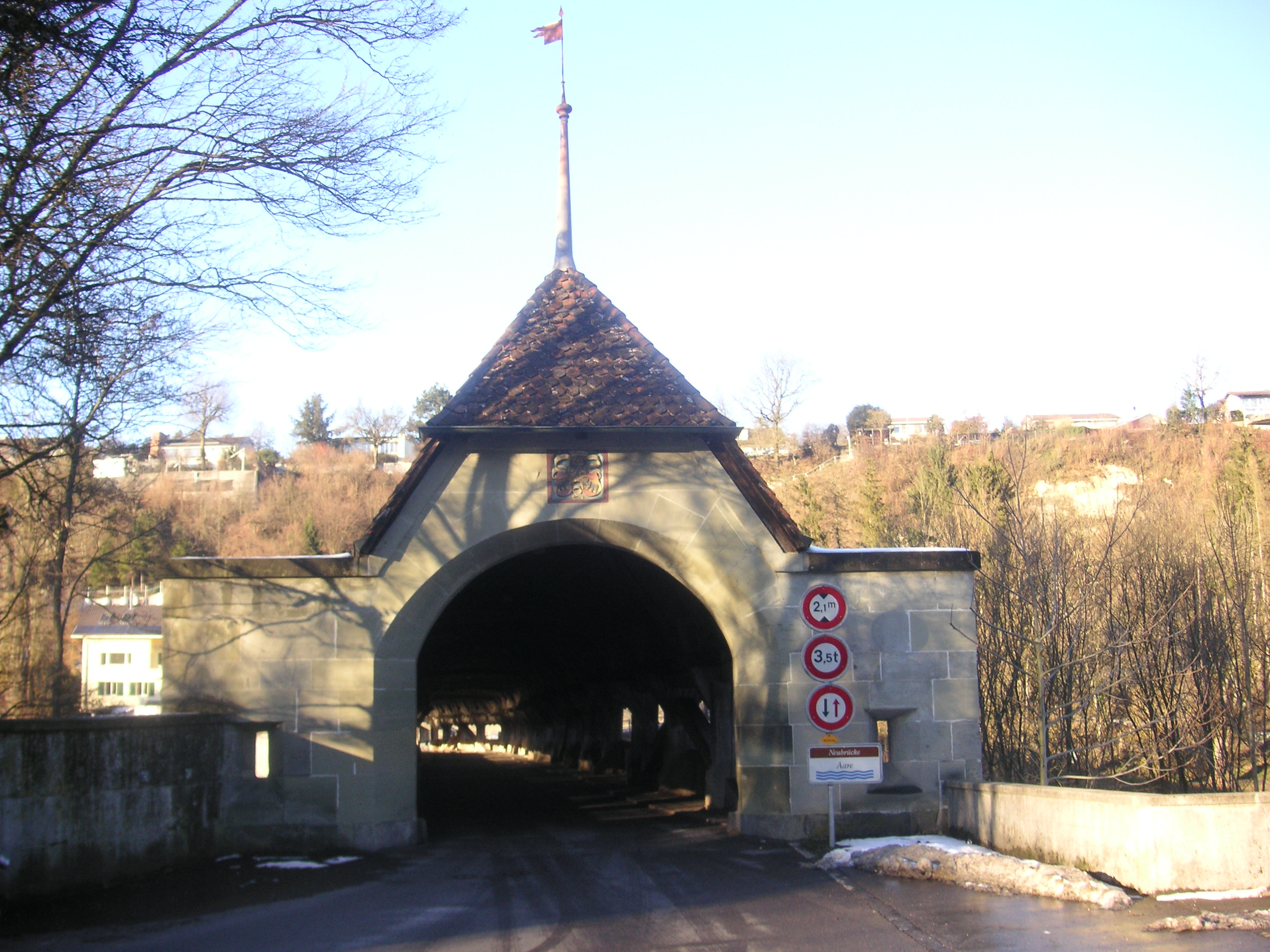 Neubrügg, Bern/Kirchlindach, Switzerland